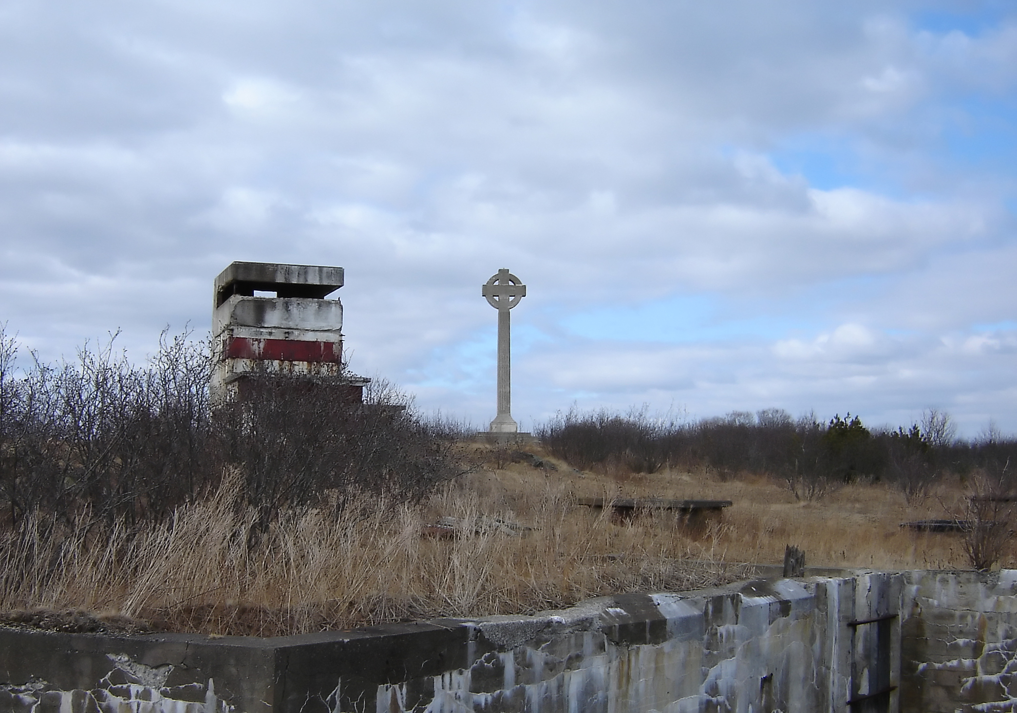 Partridge Island